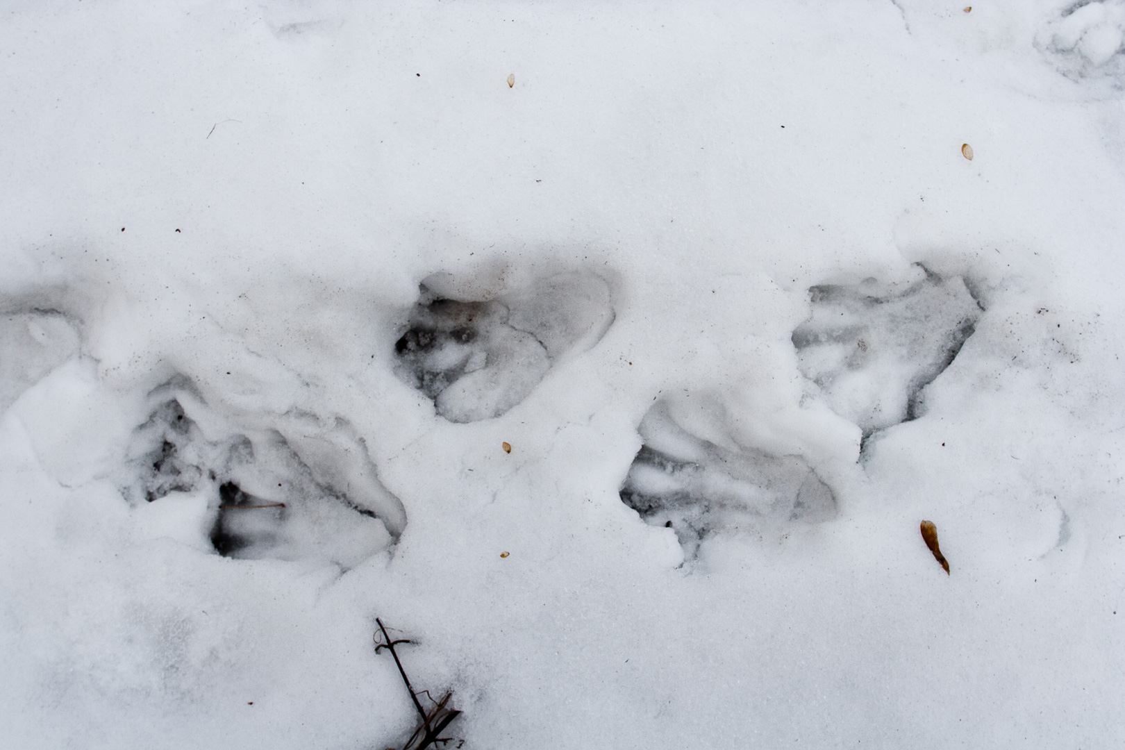 Beaver Castor fiber tracks in snow.